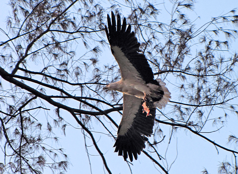 A White-bellied Sea-eagle (also known as the White-bellied Fish-eagle and White-breasted Sea Eagle) in Mangalore, Karnataka, India. It has returned with a large fish. The eagle had to go through quite a bit, dodging kites and crows, before it could settle down.